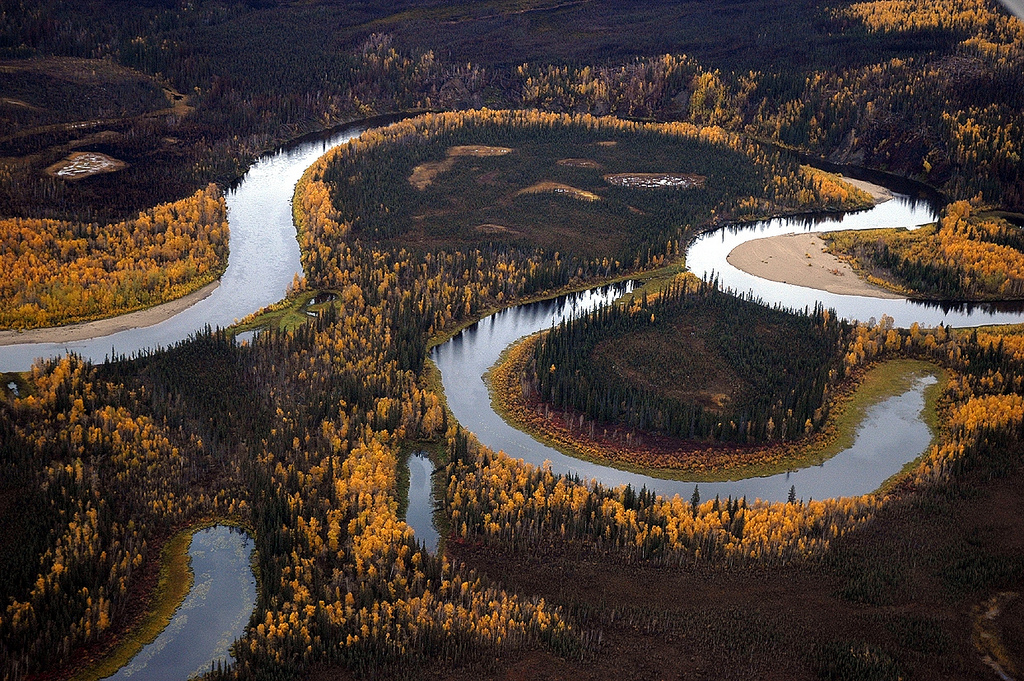 The Kanuti River winds through banks of golden trees in autumn on the Kanuti National Wildlife Refuge in Alaska. This image contains a good example of an oxbow lake, created when a meander is cut off by a new, shorter channel, leaving a u-shaped lake.